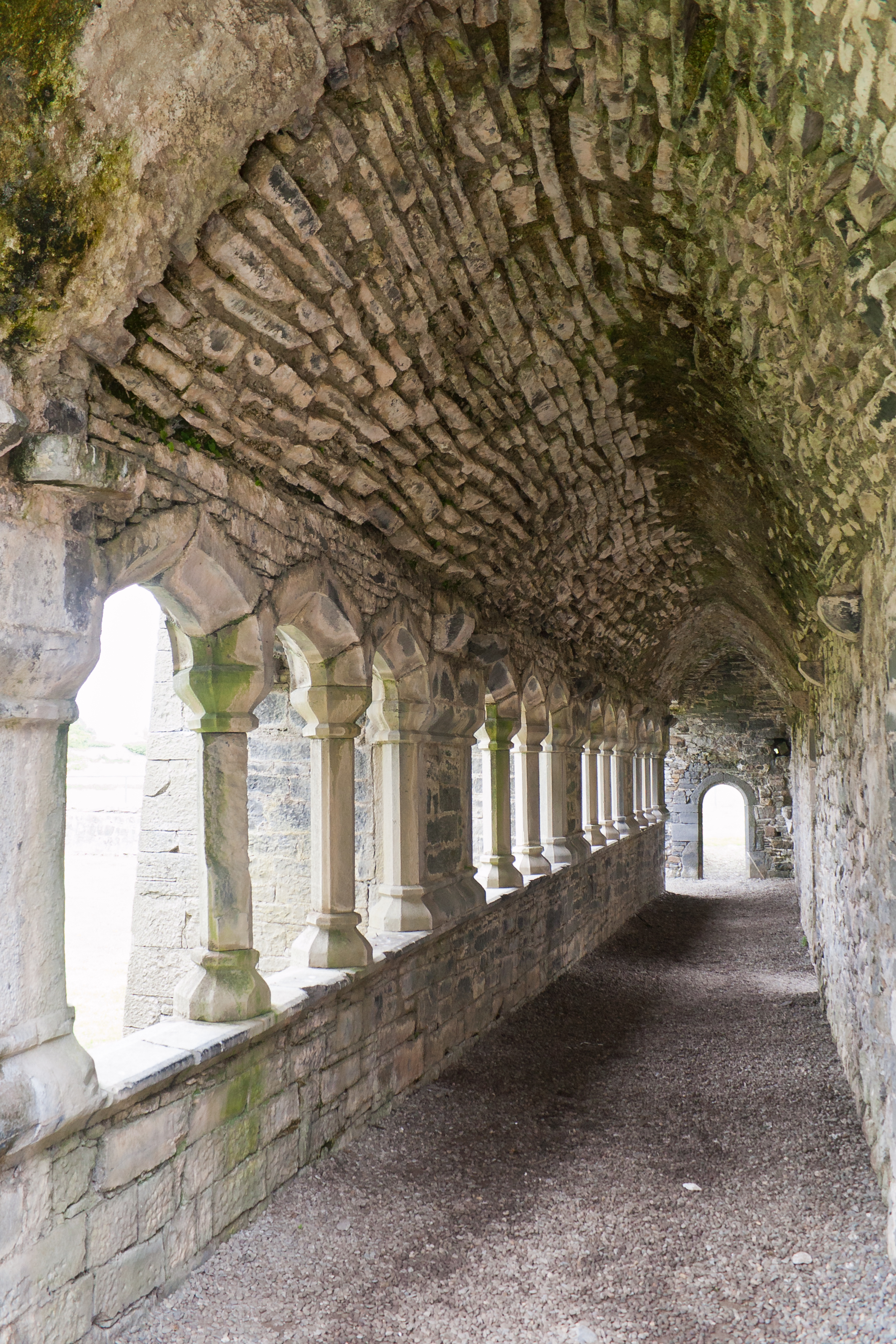 Eastern cloister walk.